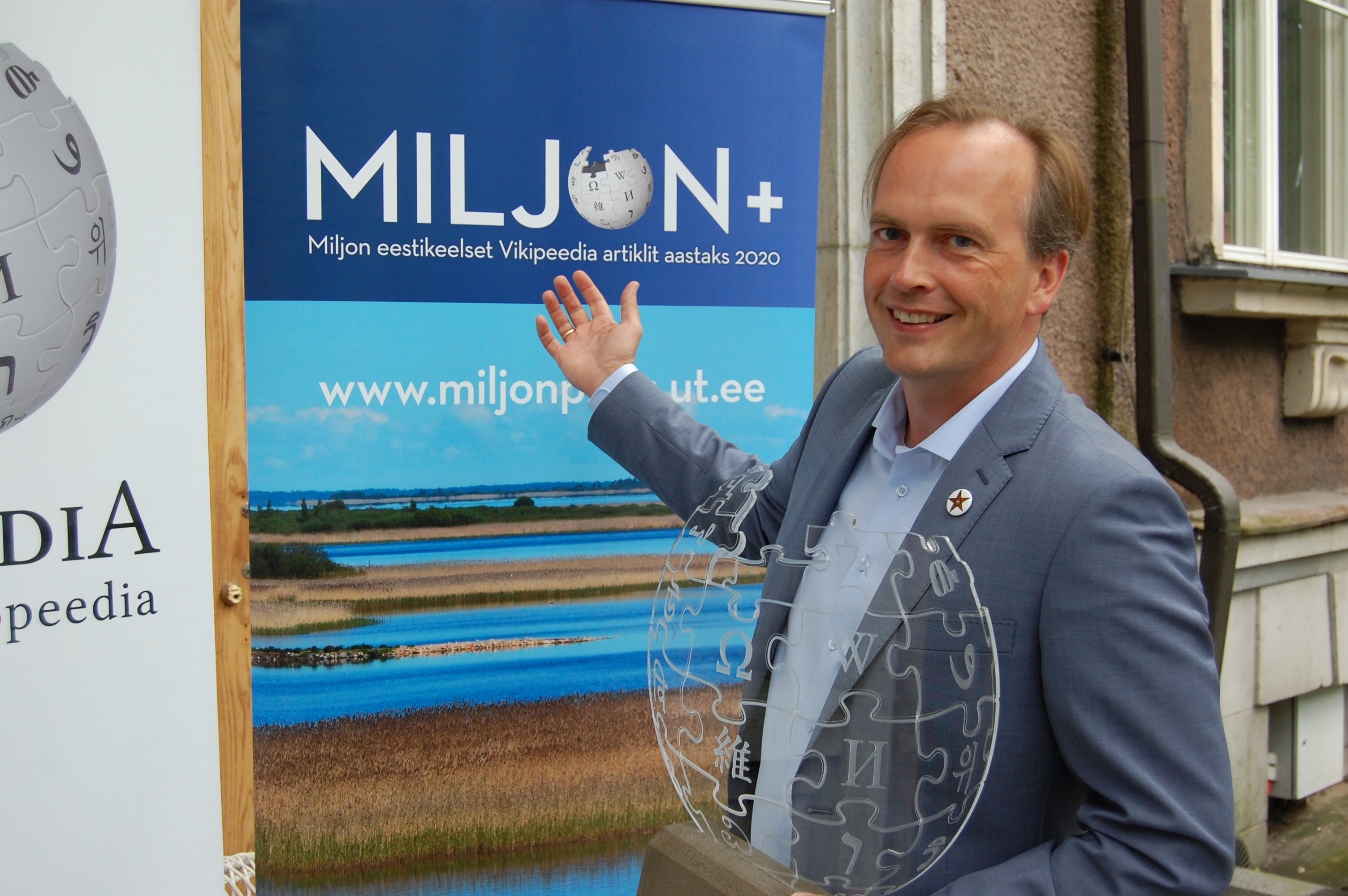 Mart Noorma (Friend of Wikipedia Estonia 2017) at Wikipedia Estonia 15th anniversary event in Theatre NO99